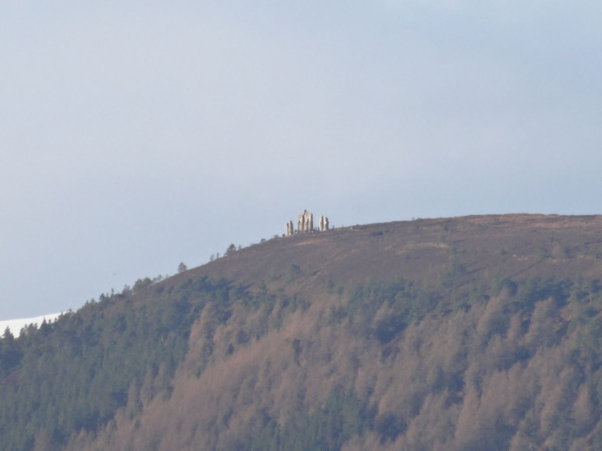 Cnoc Fhaoighris